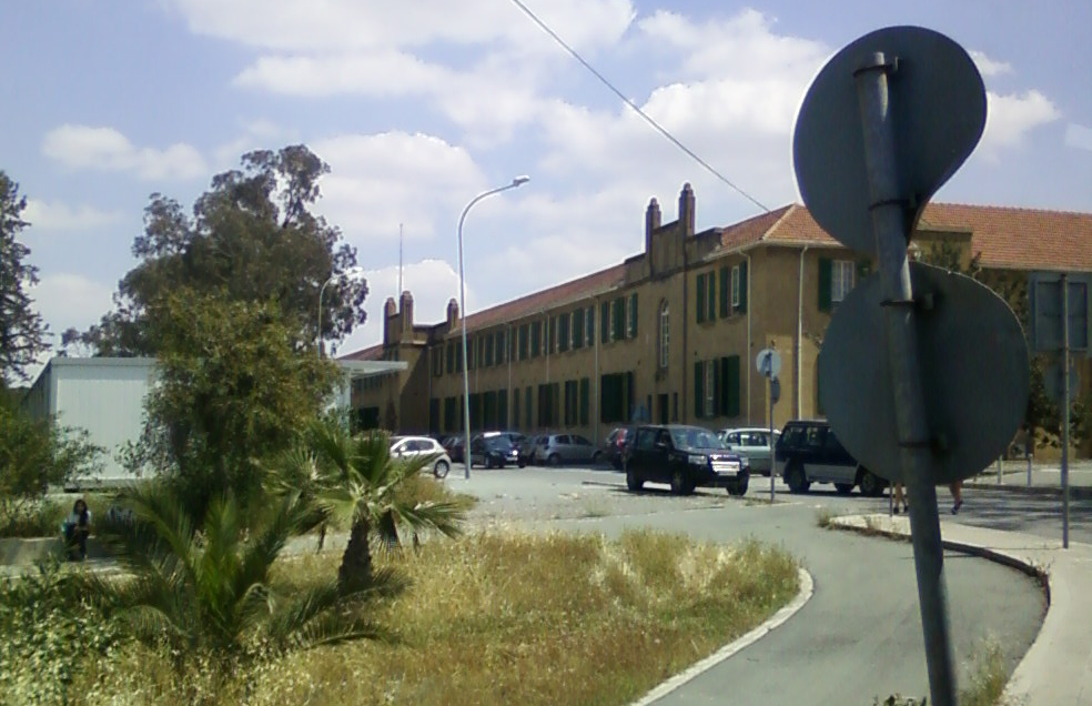 A view from The English School of Nicosia.